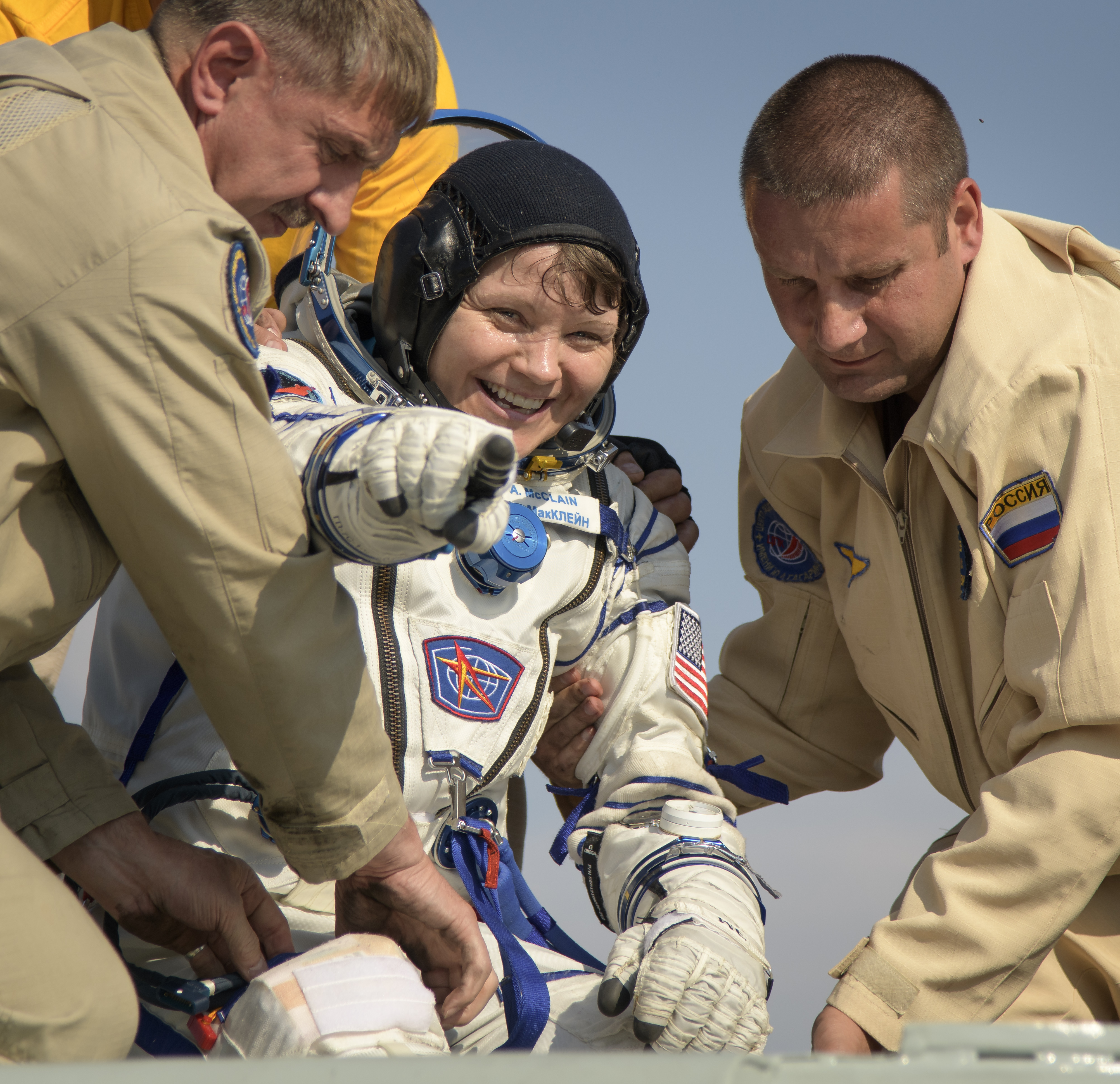 Expedition 59 NASA astronaut Anne McClain is helped out of the Soyuz MS-11 spacecraft just minutes after she, Canadian Space Agency astronaut David Saint-Jacques, and Roscosmos cosmonaut Oleg Kononenko, landed in a remote area near the town of Zhezkazgan, Kazakhstan on Tuesday, June 25, 2019 Kazakh time (June 24 Eastern time). McClain, Saint-Jacques, and Kononenko are returning after 204 days in space where they served as members of the Expedition 58 and 59 crews onboard the International Space Station.